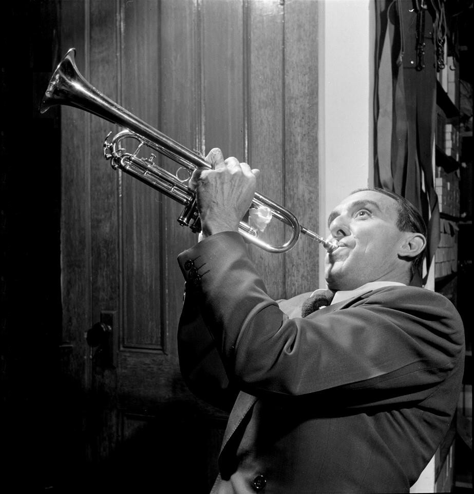 Wingy Manone (13 February 1900 – 9 July 1982) was an American jazz trumpeter, William P. Gottlieb's office, New York, N.Y., between 1946 and 1948 (Photograph by William P. Gottlieb)